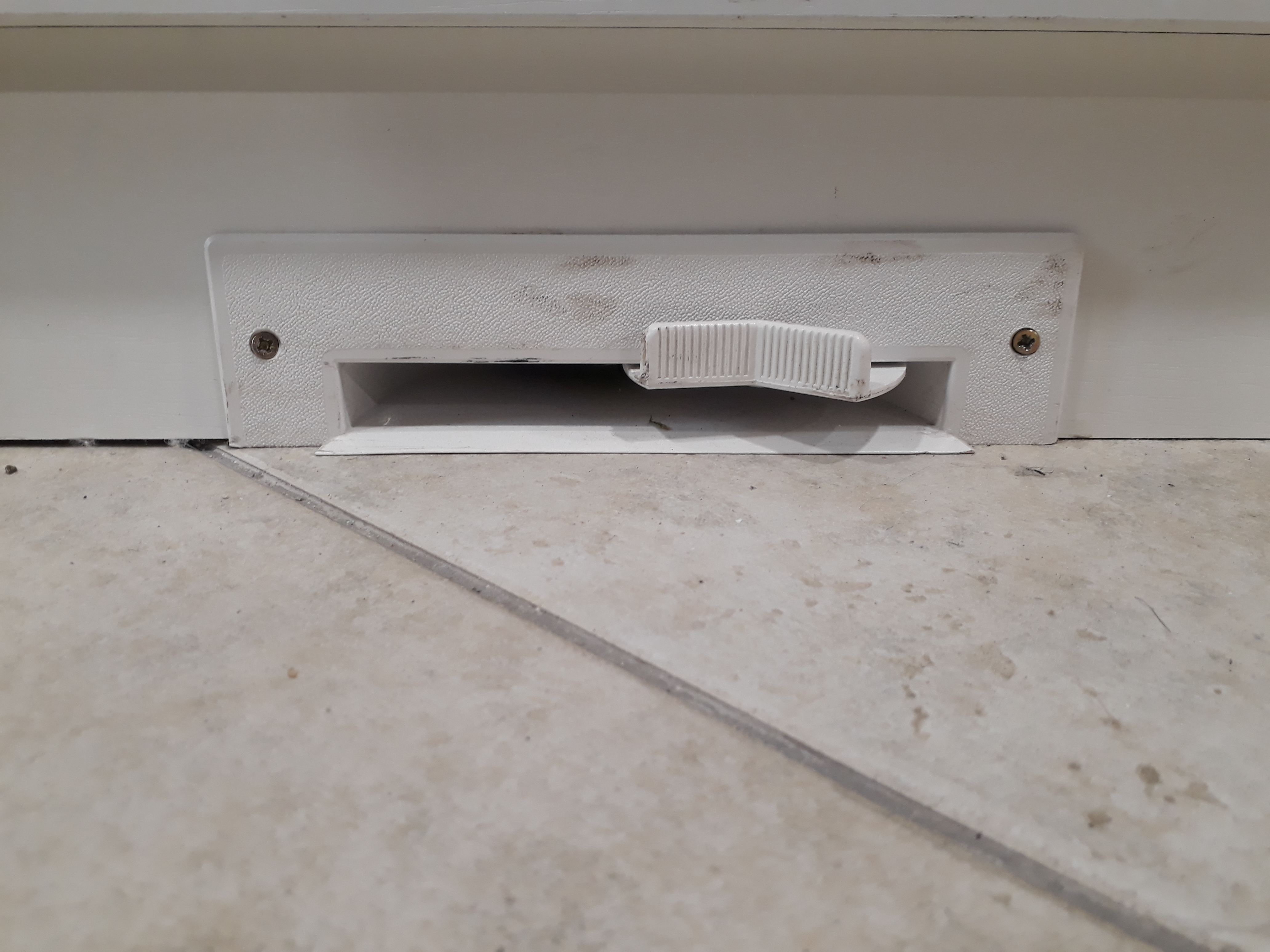 Built is dust pan central vacuum cleaner